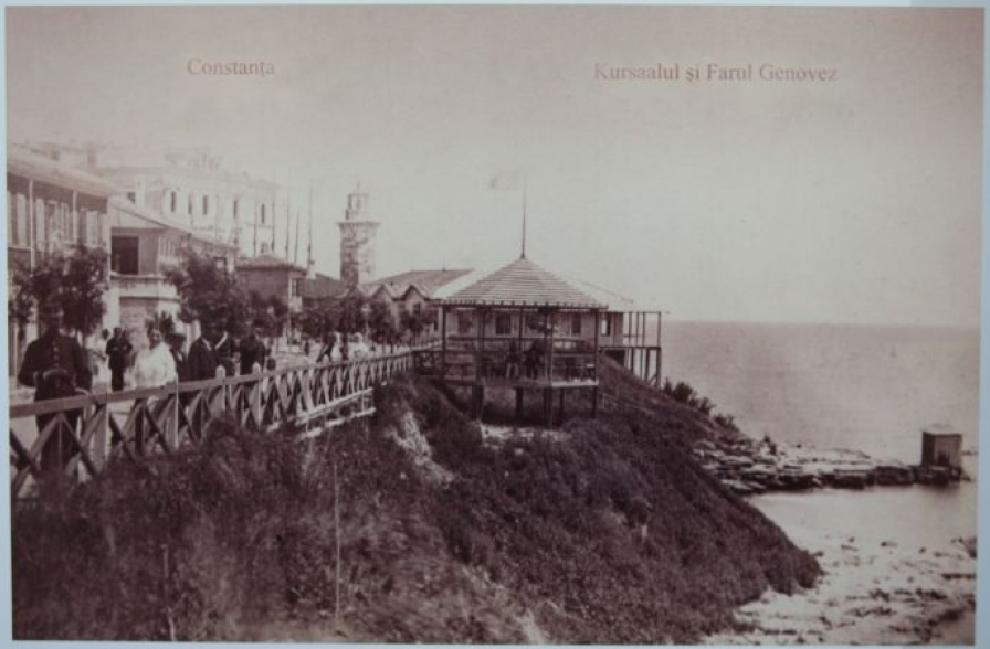 Kursaal, First Constanta Casino with Genoese Lighthouse in the background